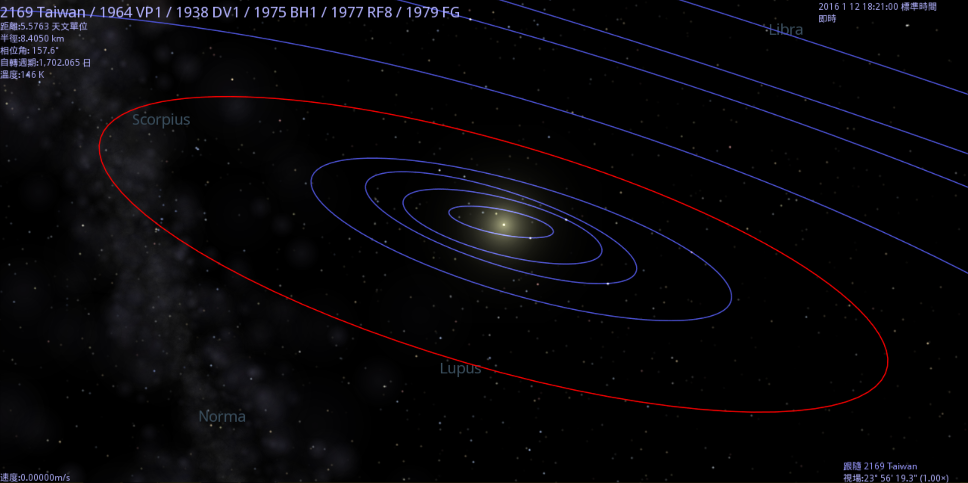 A screenshot in Celestia, showing the orbit of asteroid 2169 Taiwan inclined to the plane of the Solar System